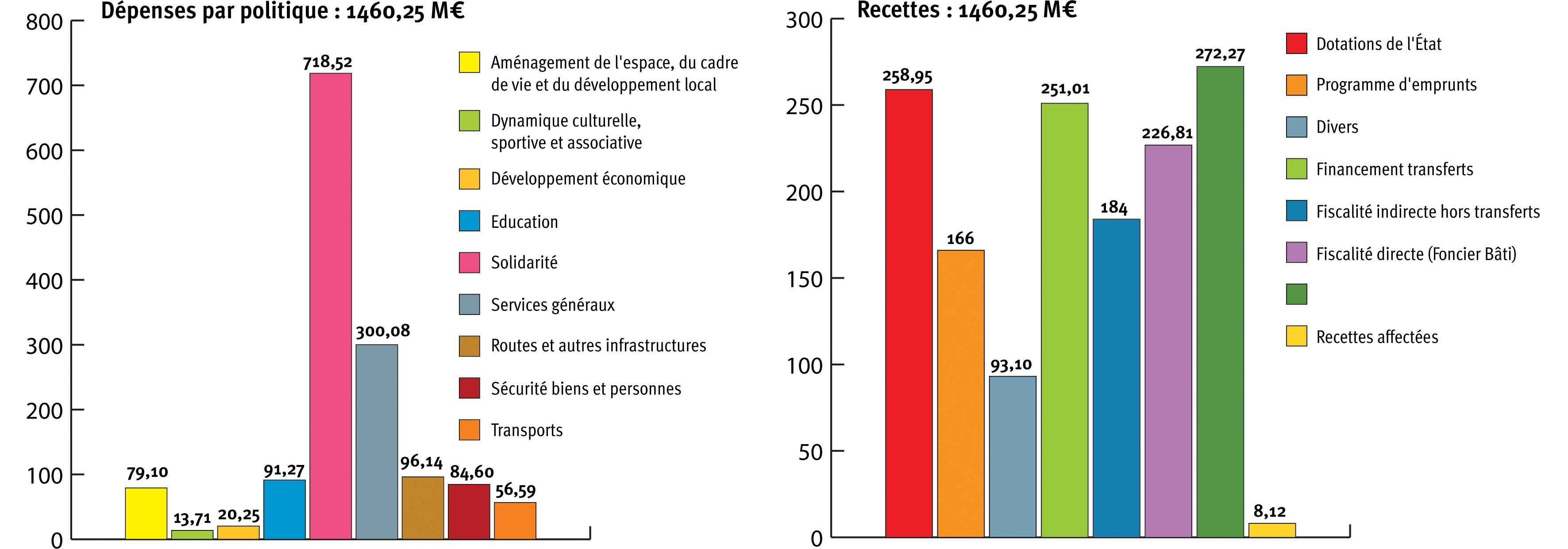 Graphique du budget du Conseil général de la Gironde en 2011